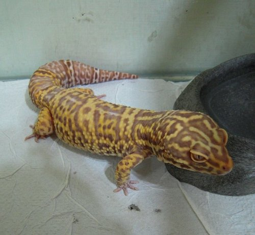 Tremper Albinic Leopard gecko